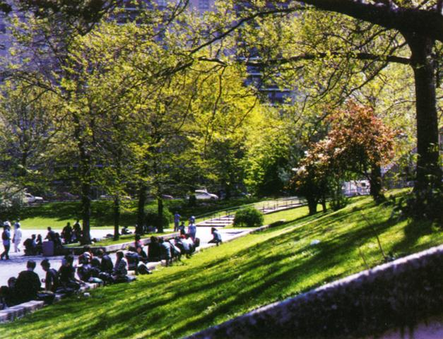 The Bronx Science summertime campus.